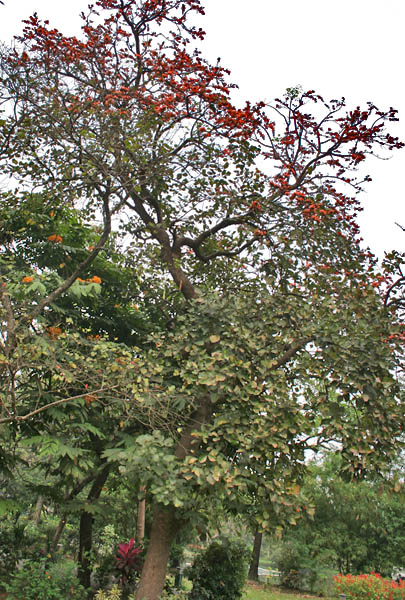 Dhak Butea monosperma in Kolkata, West Bengal, India.